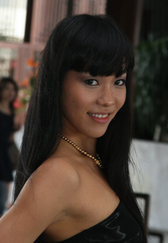 Miss Japan 2007 - Rui Watanabe in Miss World 07, Sanya, China